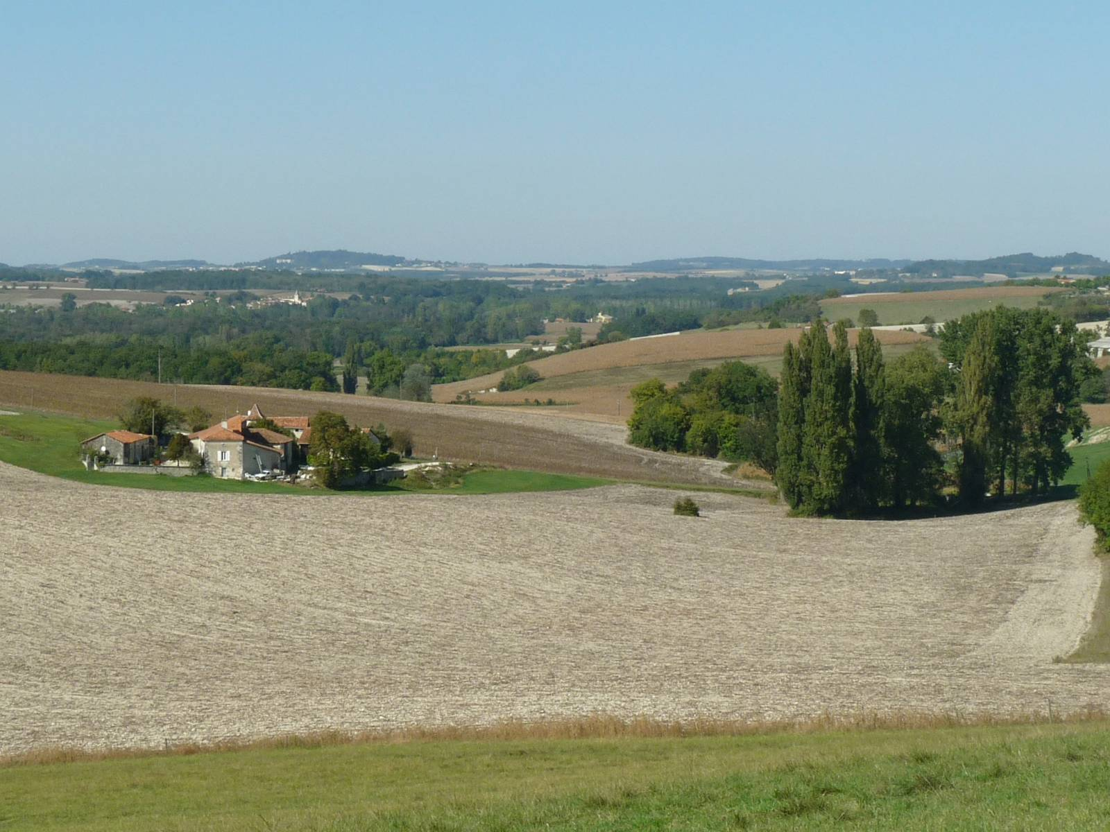 west view from Nanteuil-Auriac-de-Bourzac, Dordogne, SW France